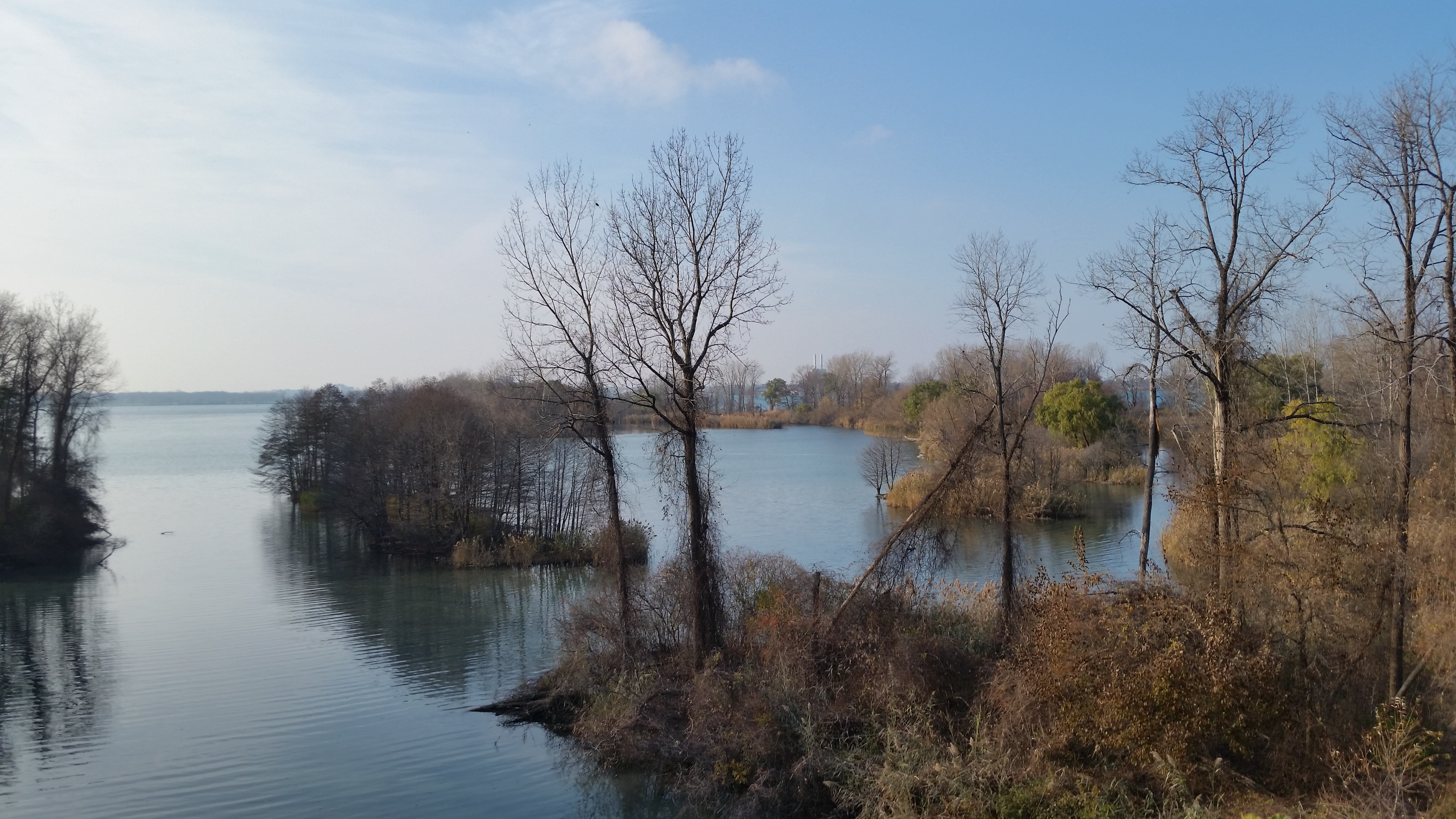 View of the canals on the inside of the island. Picture taken from a branch up in a tree, late November.